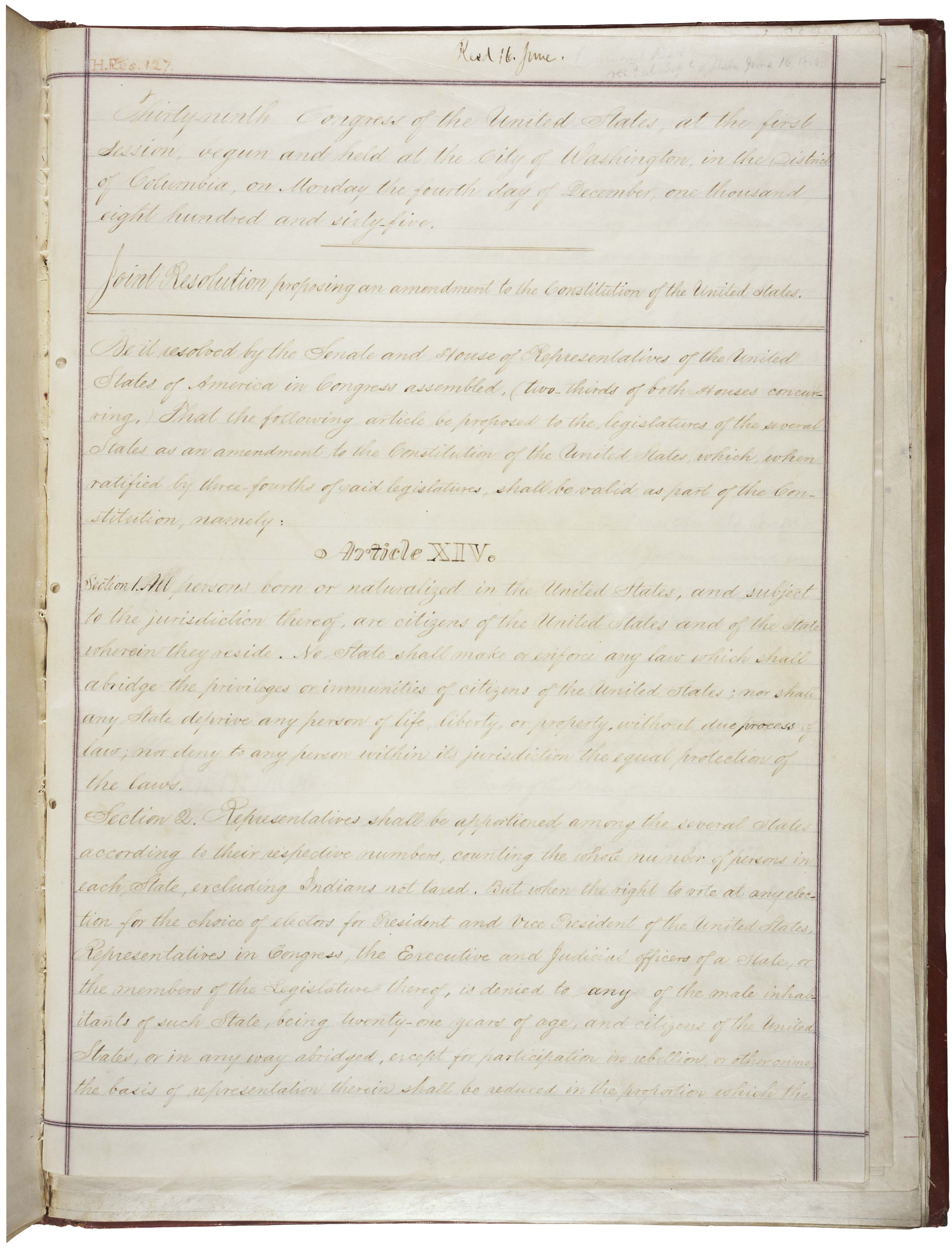 14th Amendment of the United States Constitution, page 1.